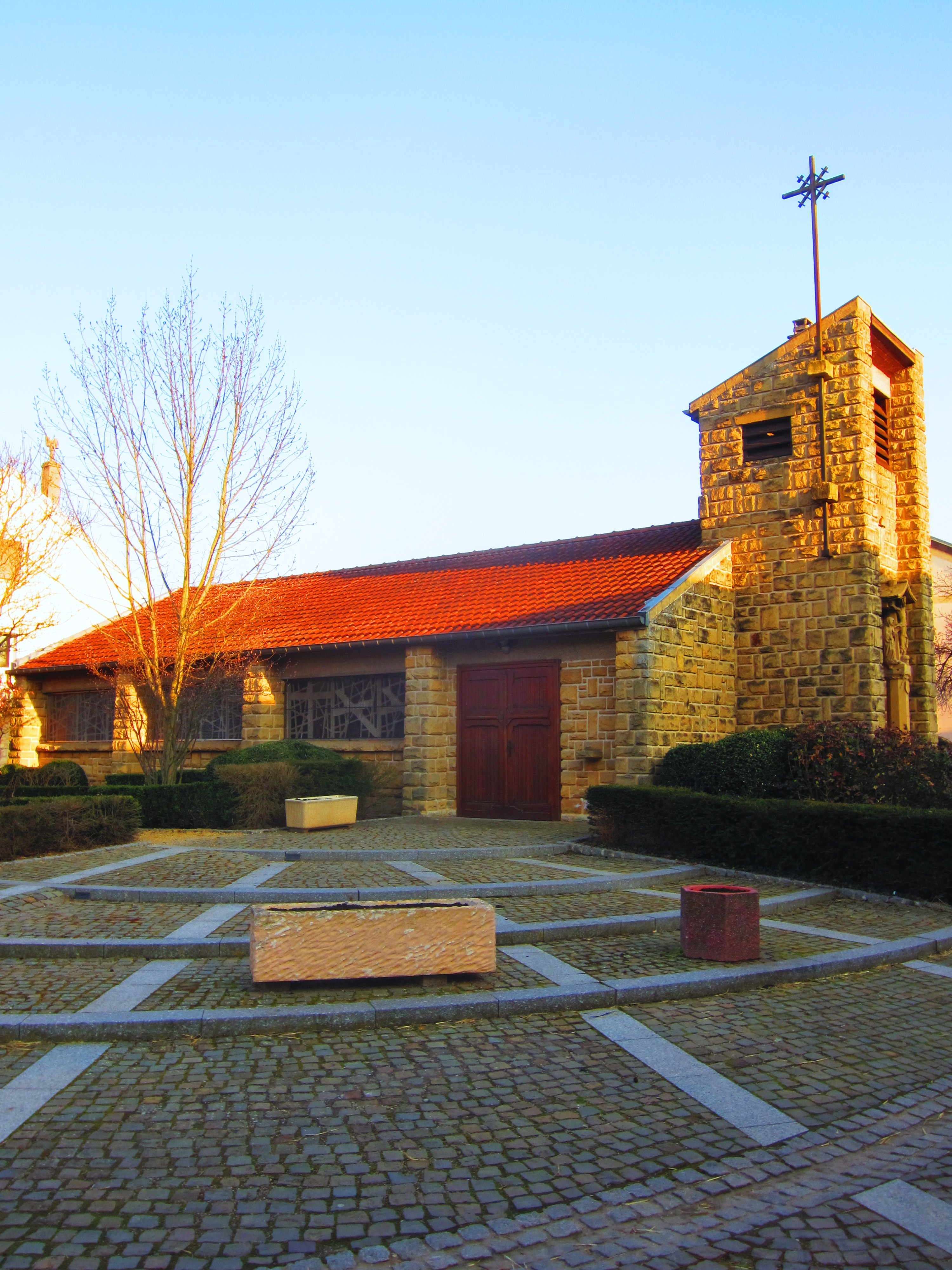 Haute Ham chapel